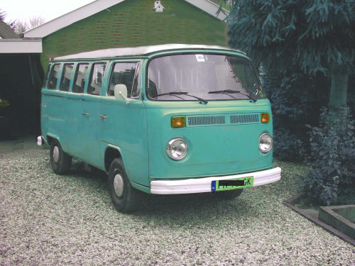 Lame picture of the Brazilian version of the Vw Type 2, based on this picture